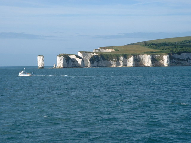 Old Harry and his wife